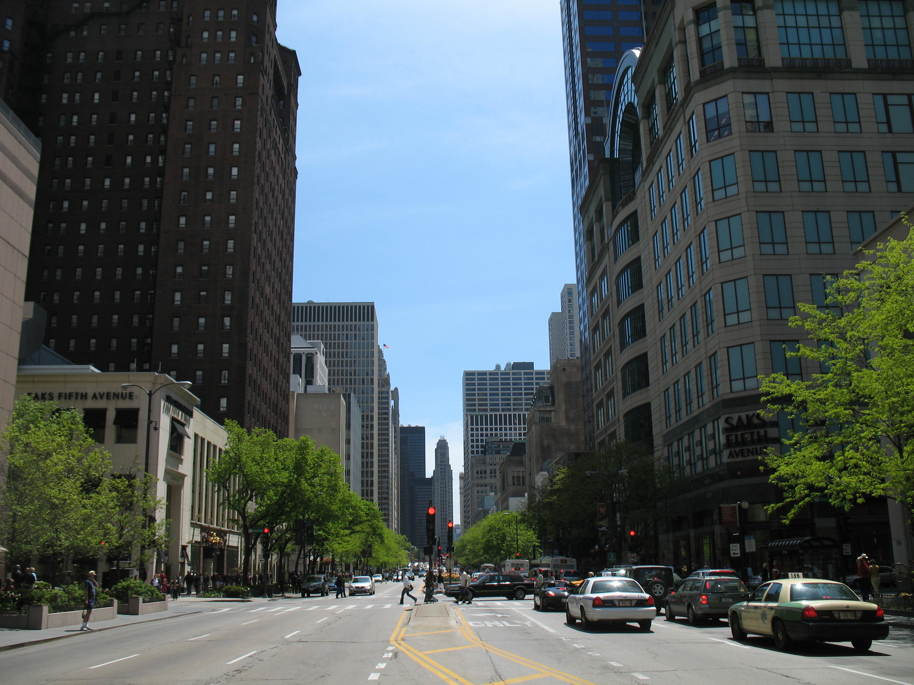 Magnificent Mile Separate Men's and Women's Saks Fifth Avenue